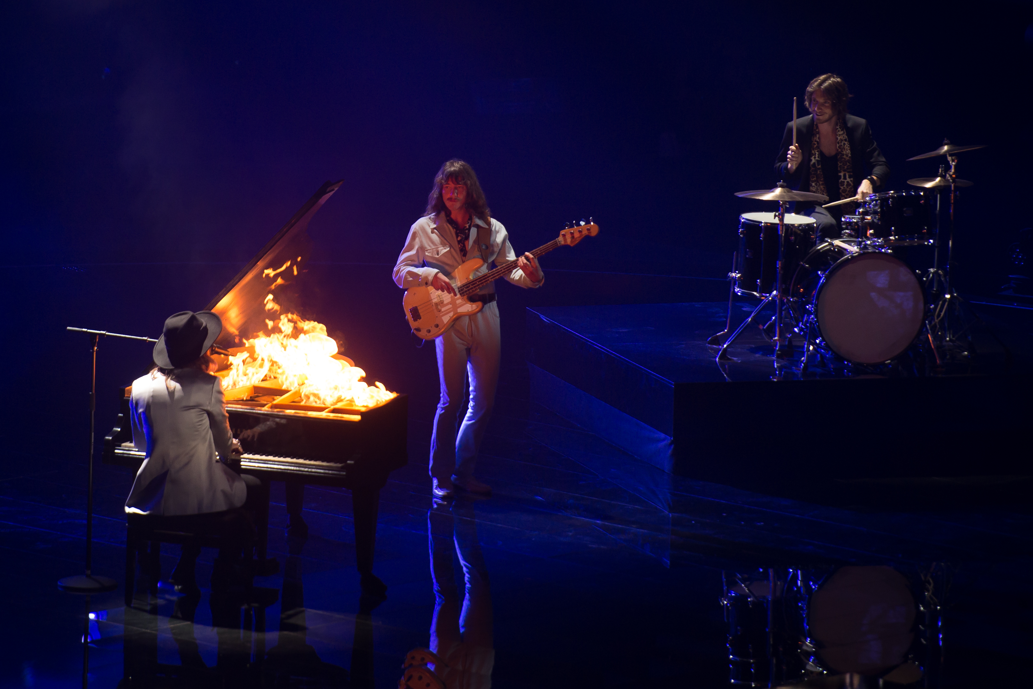 Eurovision Song Contest Vienna 2015: The Makemakes